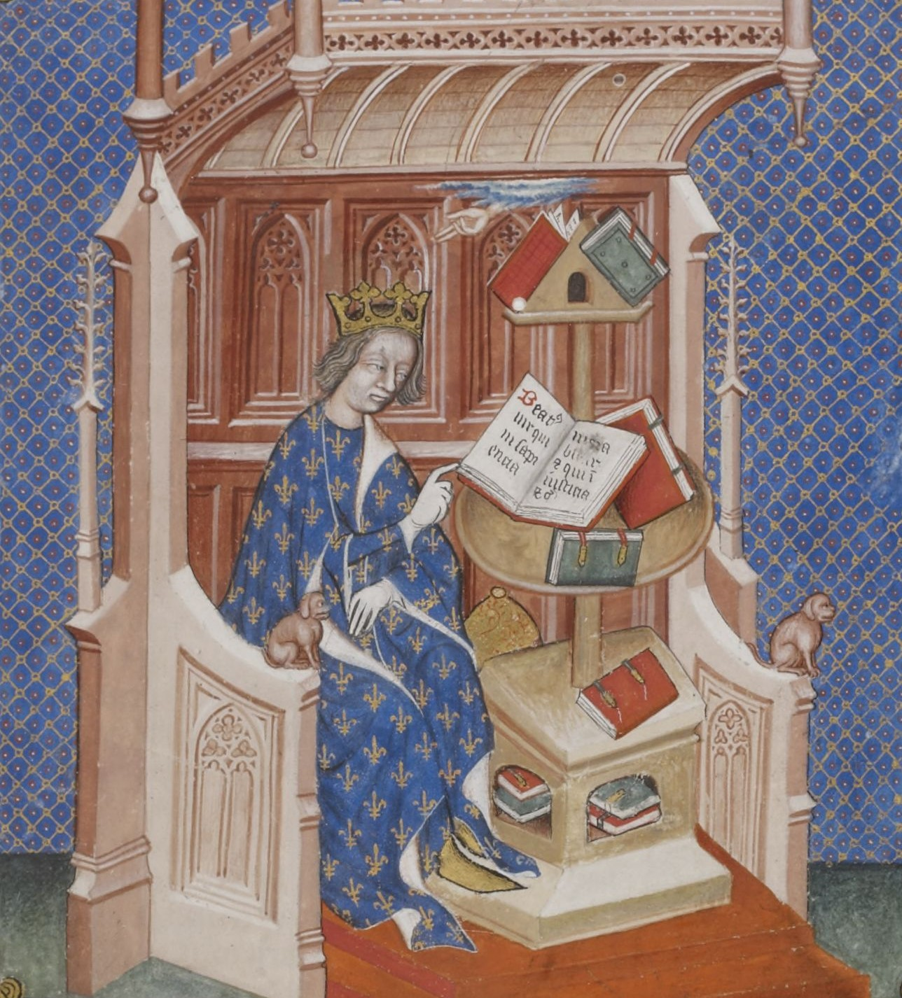 Charles V of France